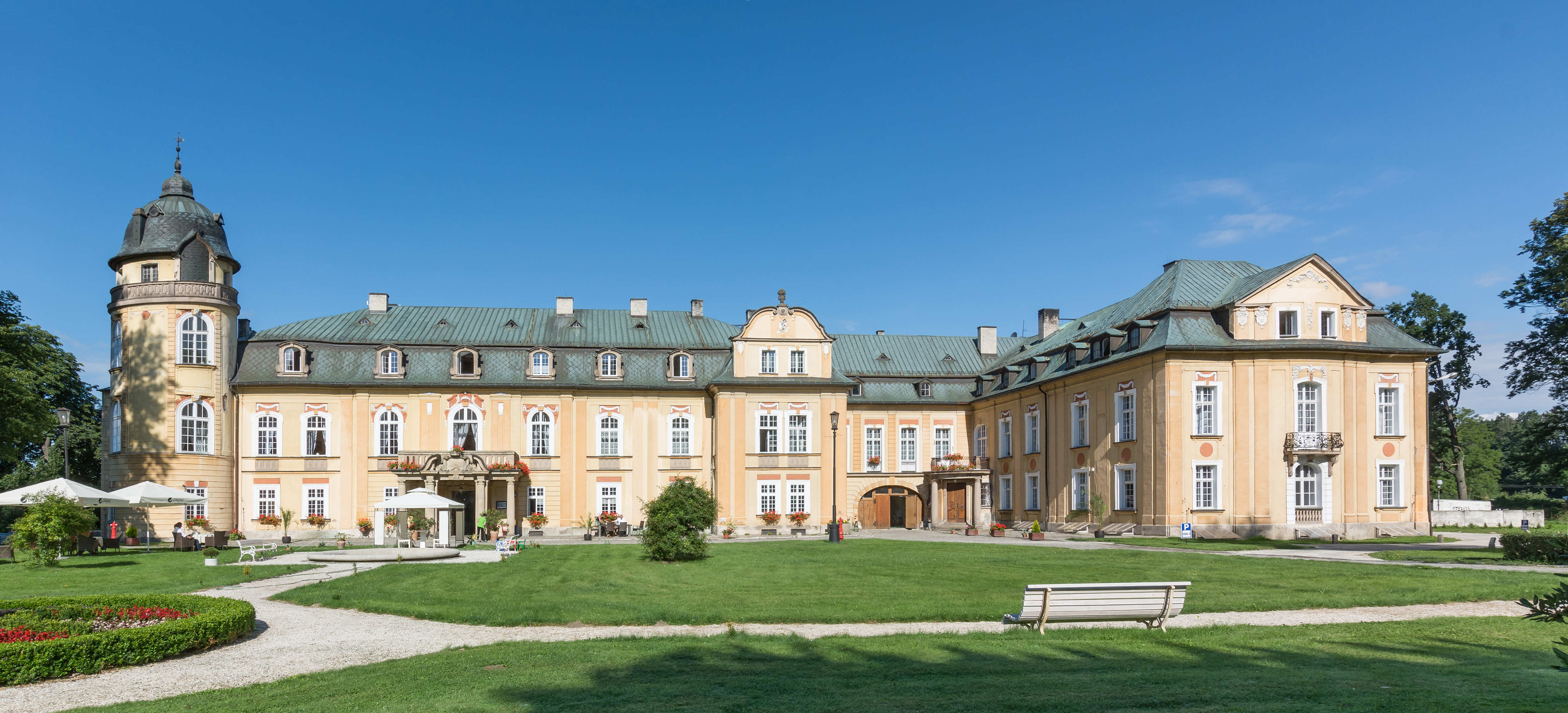 Żelazno palace